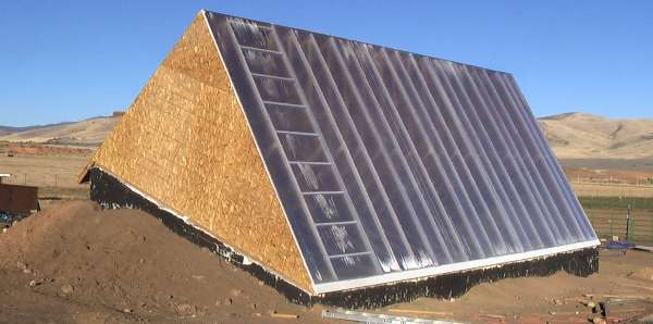 Walipini_20x40-foot_Utah_600